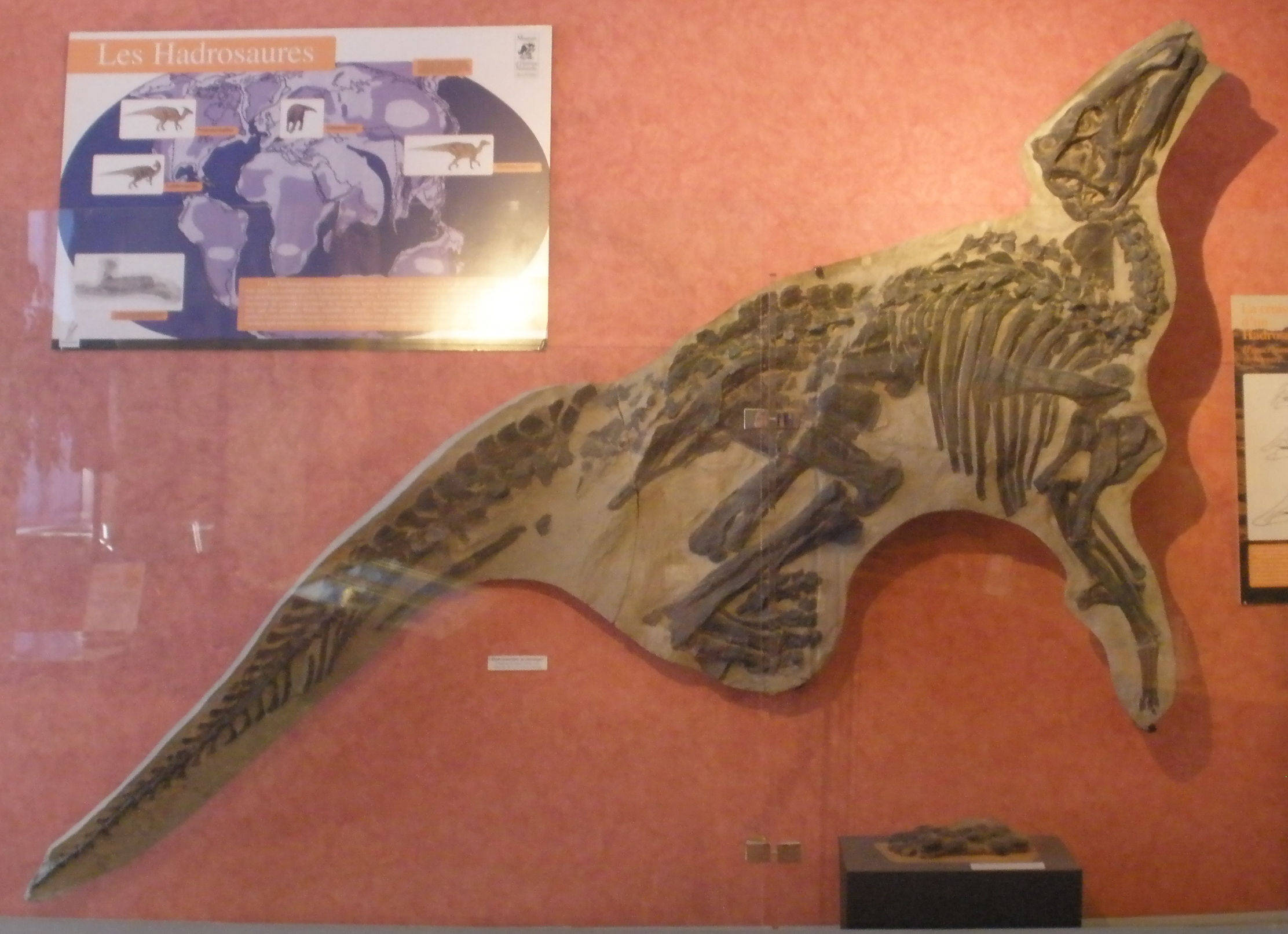 Fossil of Tethyshadros, an extinct ornithopod